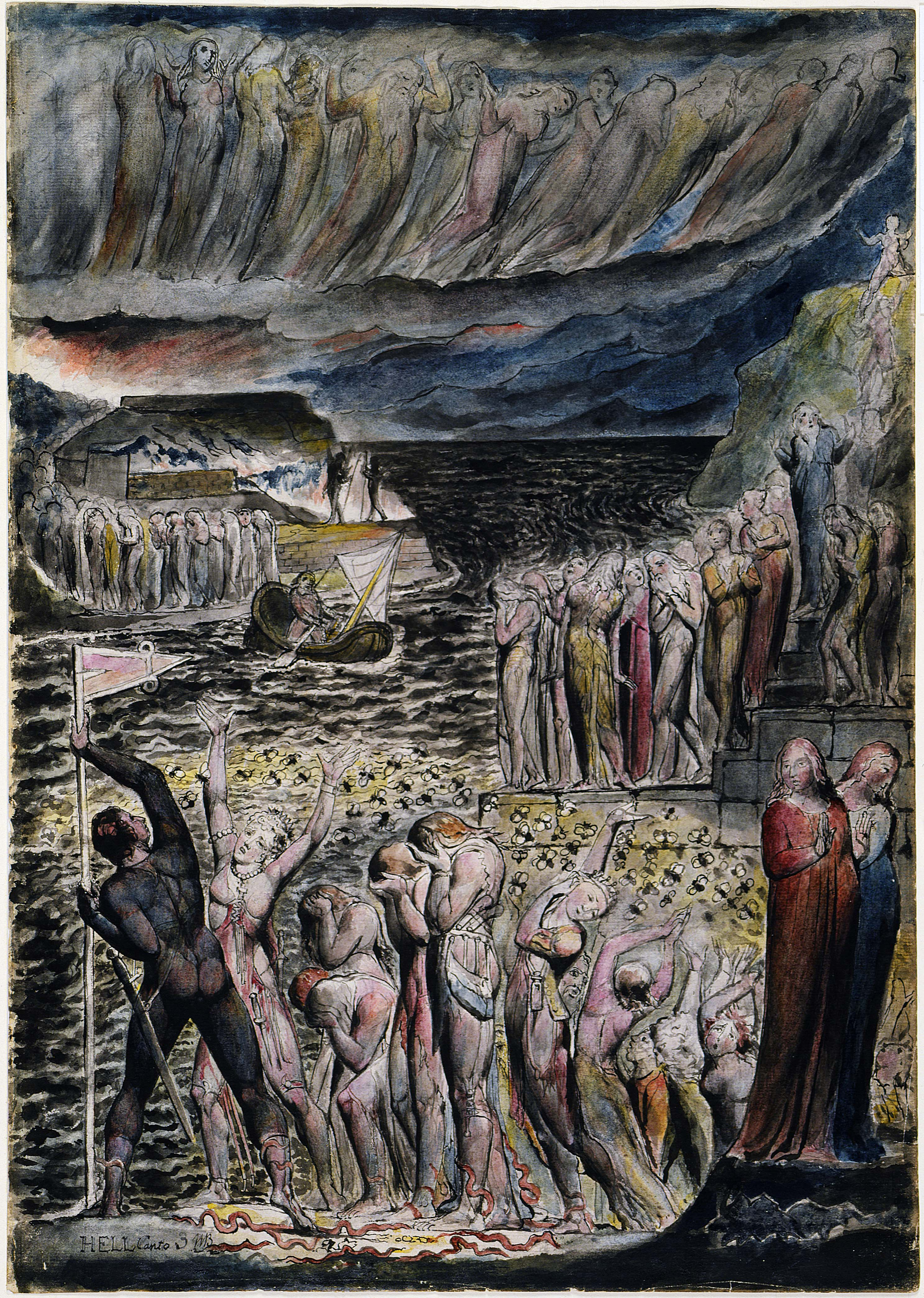 Illustrations to Dante's "Divine Comedy", object 5 (Butlin 812.5) "The Vestibule of Hell and the Souls Mustering to Cross the Acheron" , ca. 1824-7.